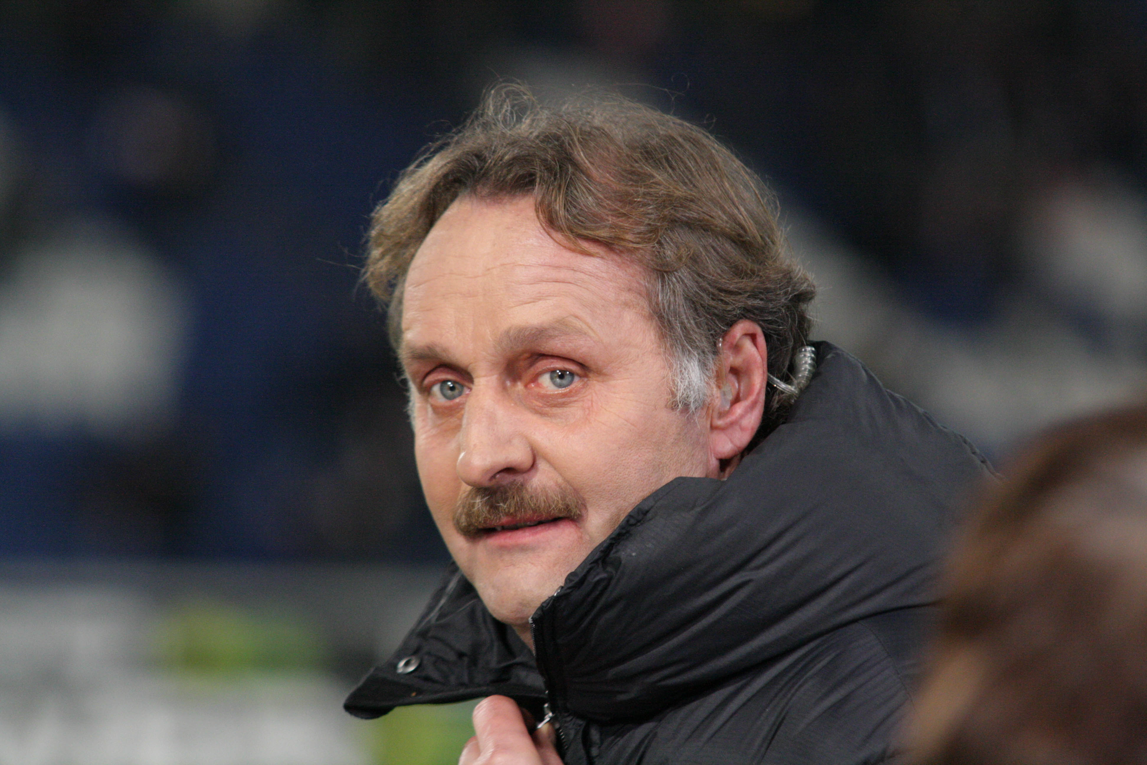 Peter Neururer, 2011